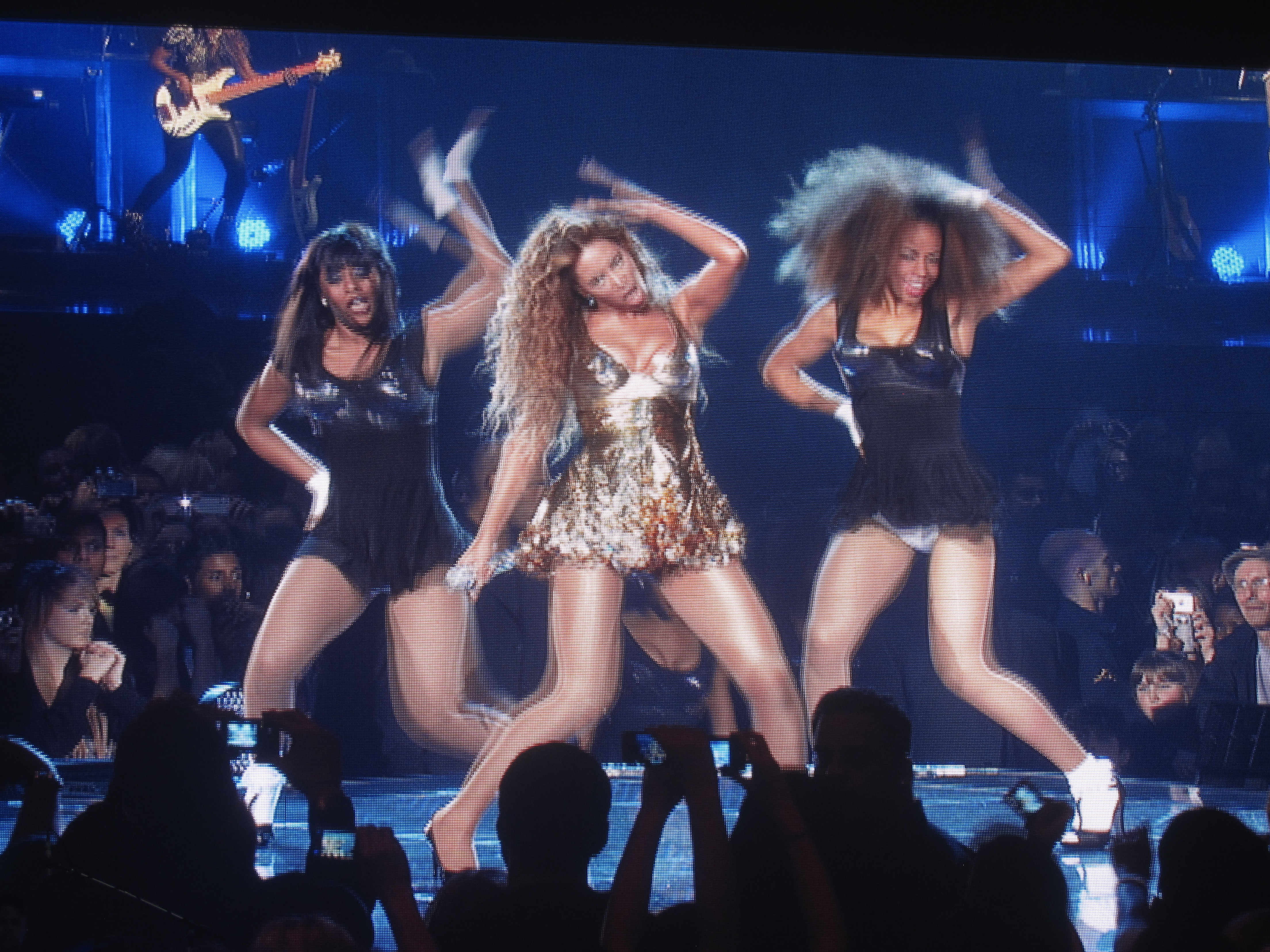 Beyoncé performing on The O2 in London.